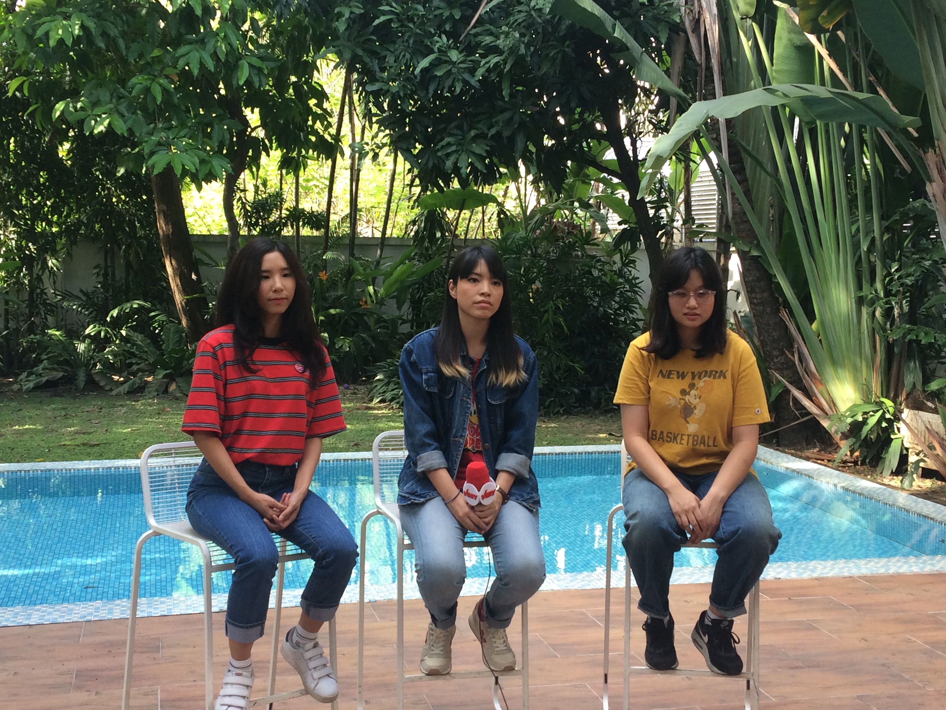 Jelly Rocket at VERY.